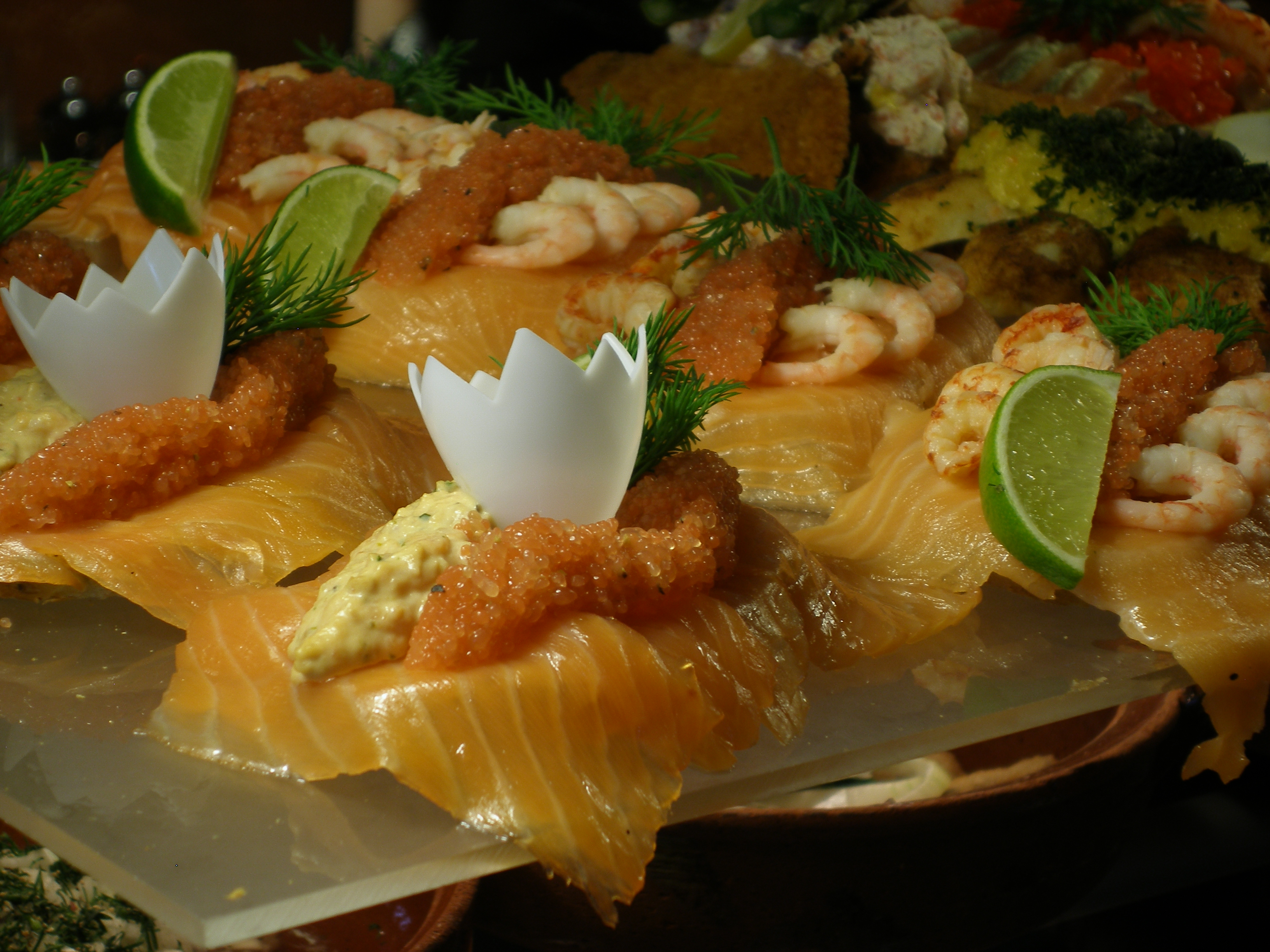 Decorated open-faced sandwichs (pyntet smørrebrød) in showcase of Restaurant Ida Davidsen, St. Kongensgade 70, Copenhagen, Denmark